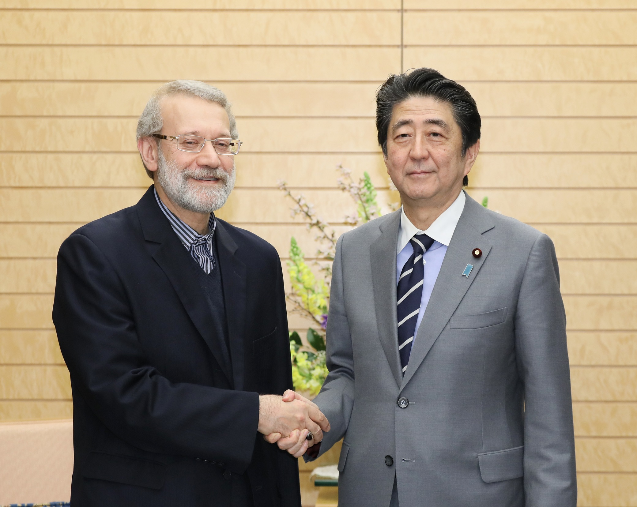 On February 13, 2019, Prime Minister Shinzo Abe received a courtesy call from H. E. Dr. Ali Larijani, Speaker of the Parliament of the Islamic Republic of Iran, and others, at the Prime Minister’s Office.